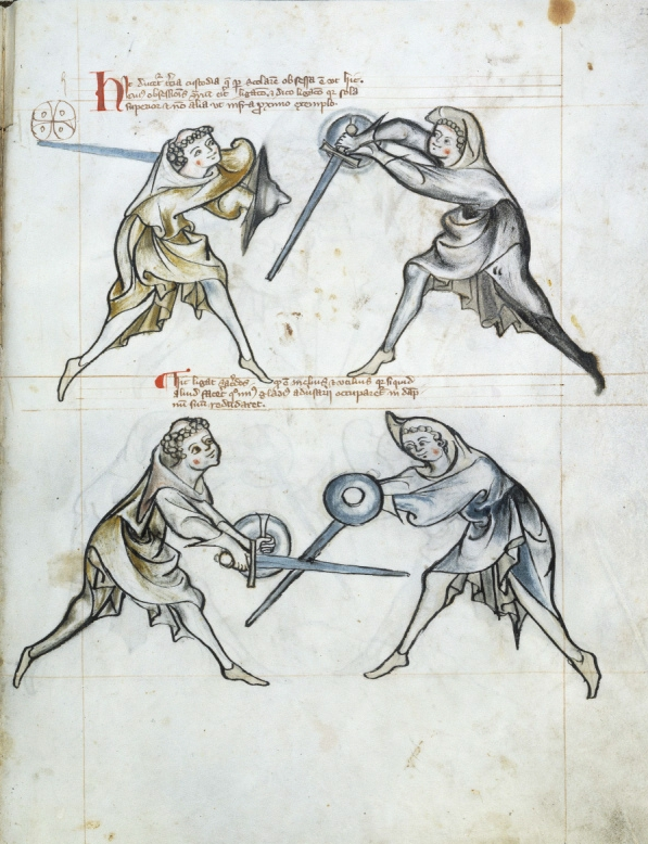 Fol. 12r of Royal Armouries Ms. I.33, a medieval treatise on fighting with sword and small shield (buckler), presumably made shortly before or after 1300 in Franconia. Facsimile by The Board of Trustees of the Armouries Royal Armouries Museum, Leeds. Original caption of facsimile image: "Manuscript illustration of two men fencing with sword and buckler. From the 'Tower Fechtbuch'. German, late 13th century"